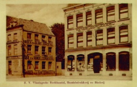 N.V. Vlissingsche Handelsdrukkerij en Boekbinderij aan het Bellamypark